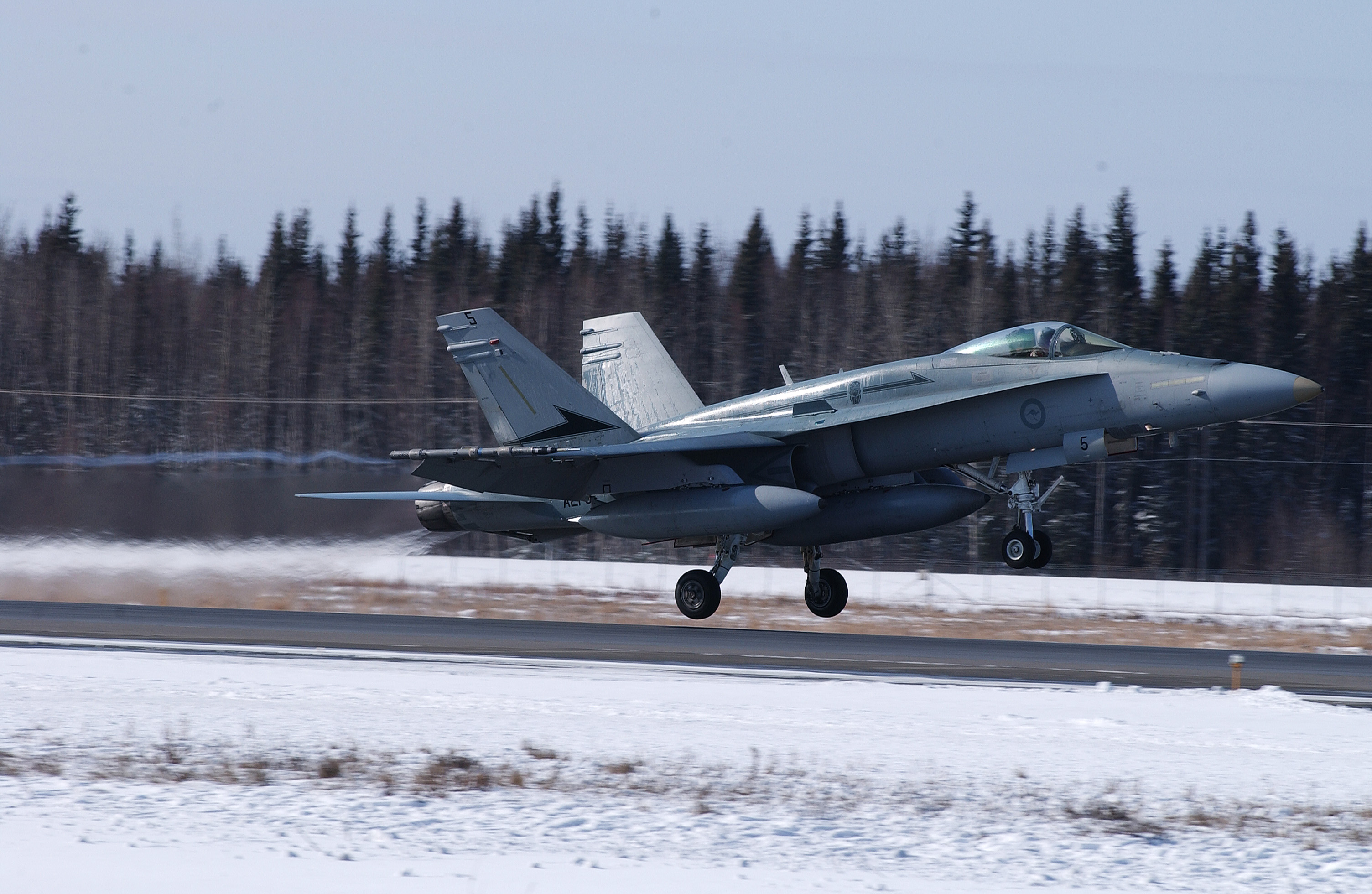 A F/A-18 Hornet takes off from the runway for a training mission at Eielson Air Force Base, Alaska April 11, 2008. RED FLAG-Alaska 08-2 is a Pacific Air Forces command directed field training exercise which provides joint offensive counter-air, interdiction, close air support and large force employment training in a simulated combat environment. The aircraft is assigned to No. 75 Squadron RAAF.